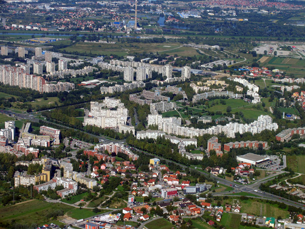 Aerial photo of Dugave, Travno and Sloboština quarters of Novi Zagreb